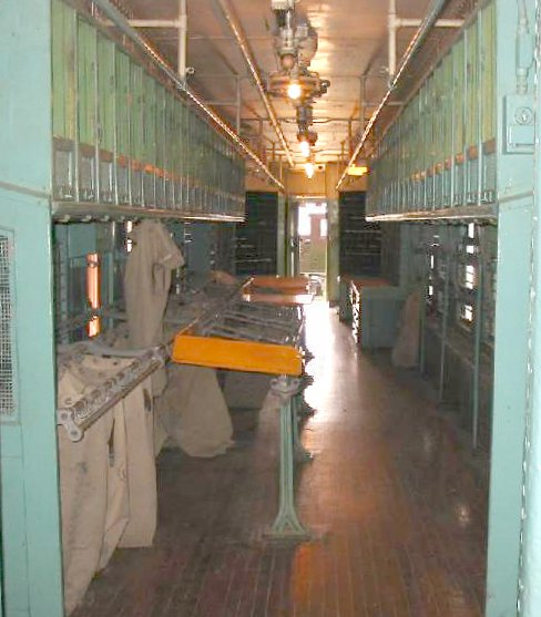 The interior of a Railway post office on display at the National Railroad Museum in Green Bay Photo by Sean Lamb (User:Slambo), April, 2004.